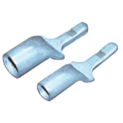 Inverter Tabs for 2 and 4 guage DC wire connections. Used to connect large wires to chargers, inverters, and such.